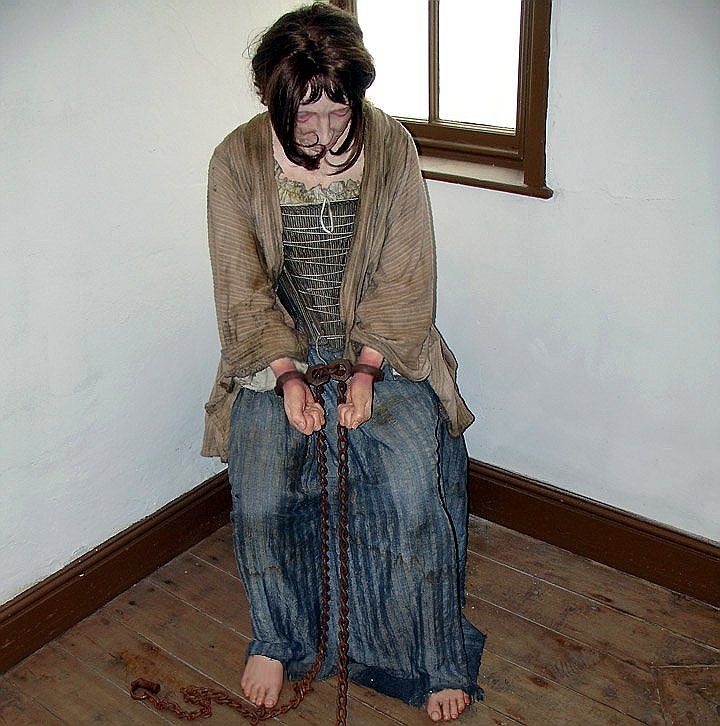 Sculpture of female prisoner in court, barefooted and wearing shackles, photography